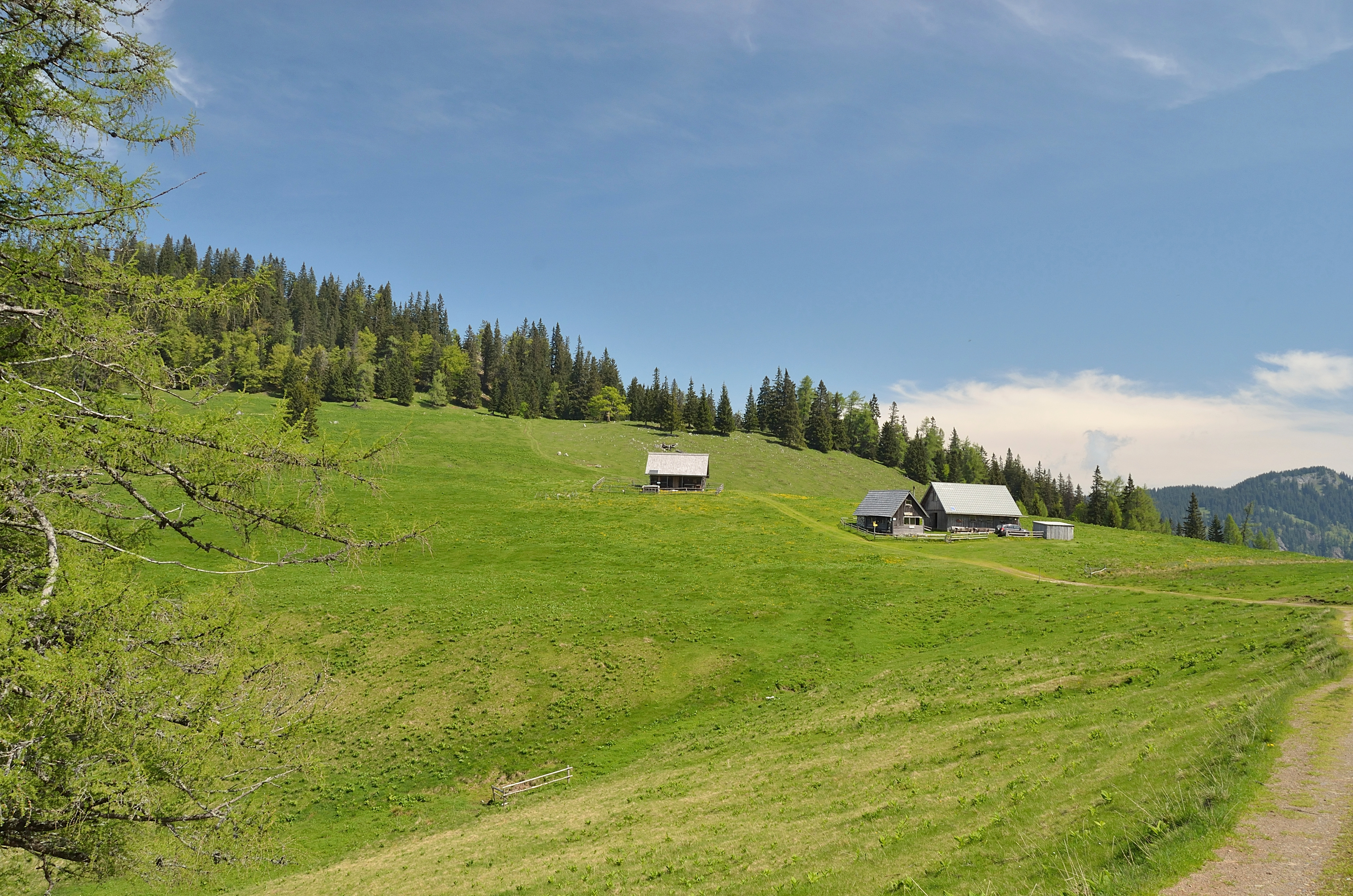 The Sohlenalm is an Alpine pasture at an elevation of 1352 m on the north flank of mountain Veitsch and south of mountain pass Niederalpl, Styria.